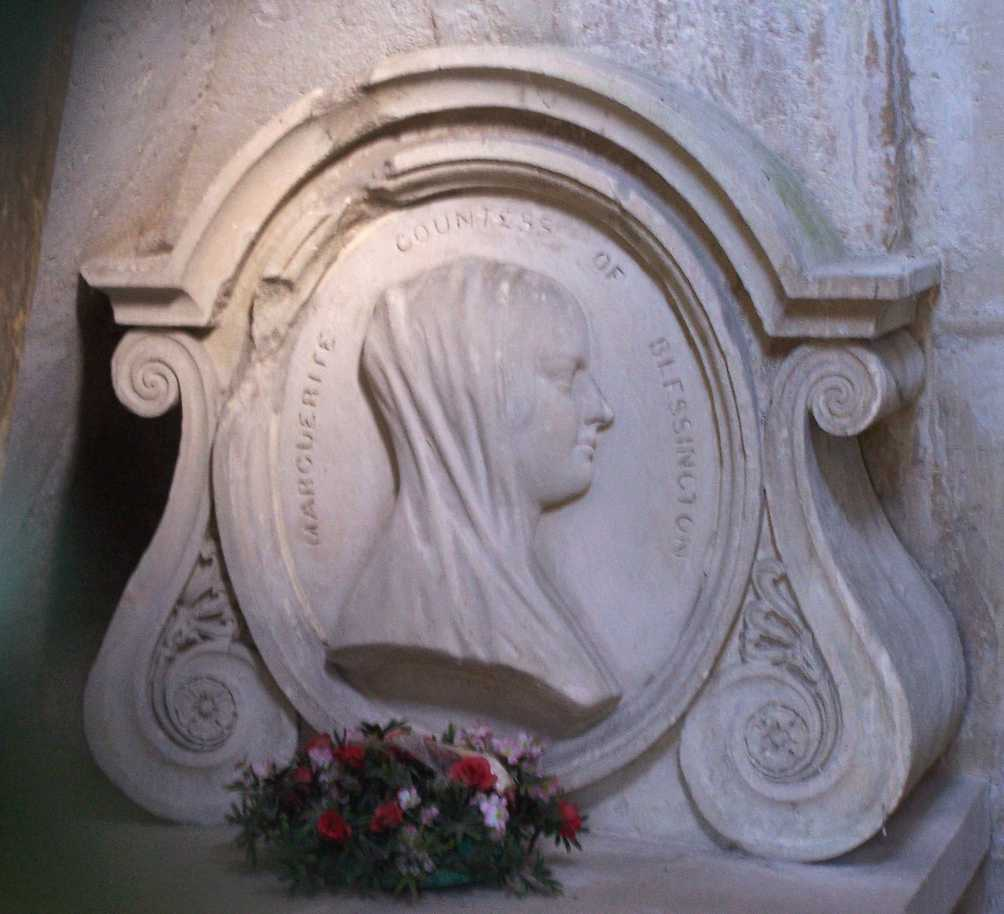 Stele of Marguerite, Countess of Blessington in her grave à Chambourcy (Yvelines, France)